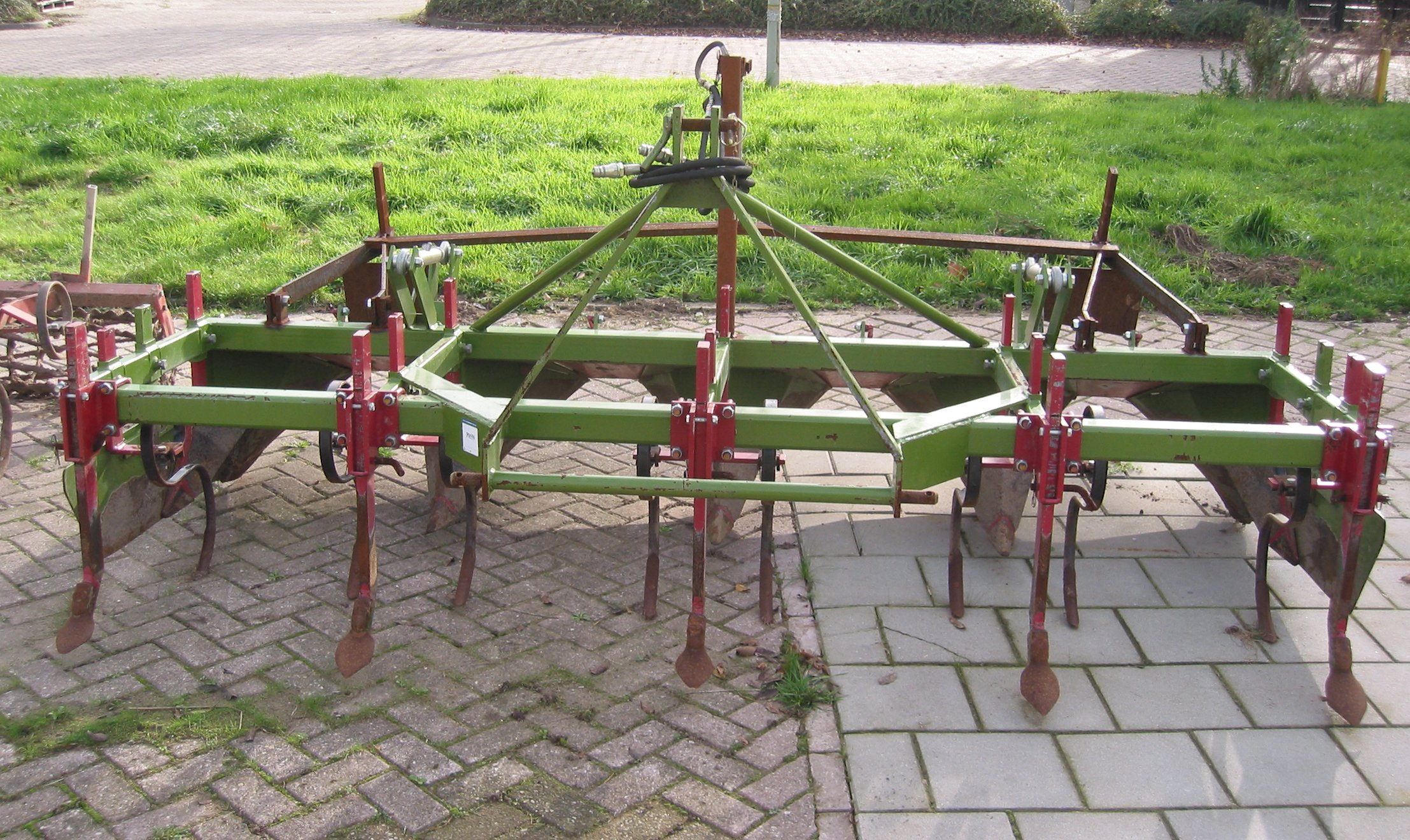 Baselier potato bed former, 4 rows, front side